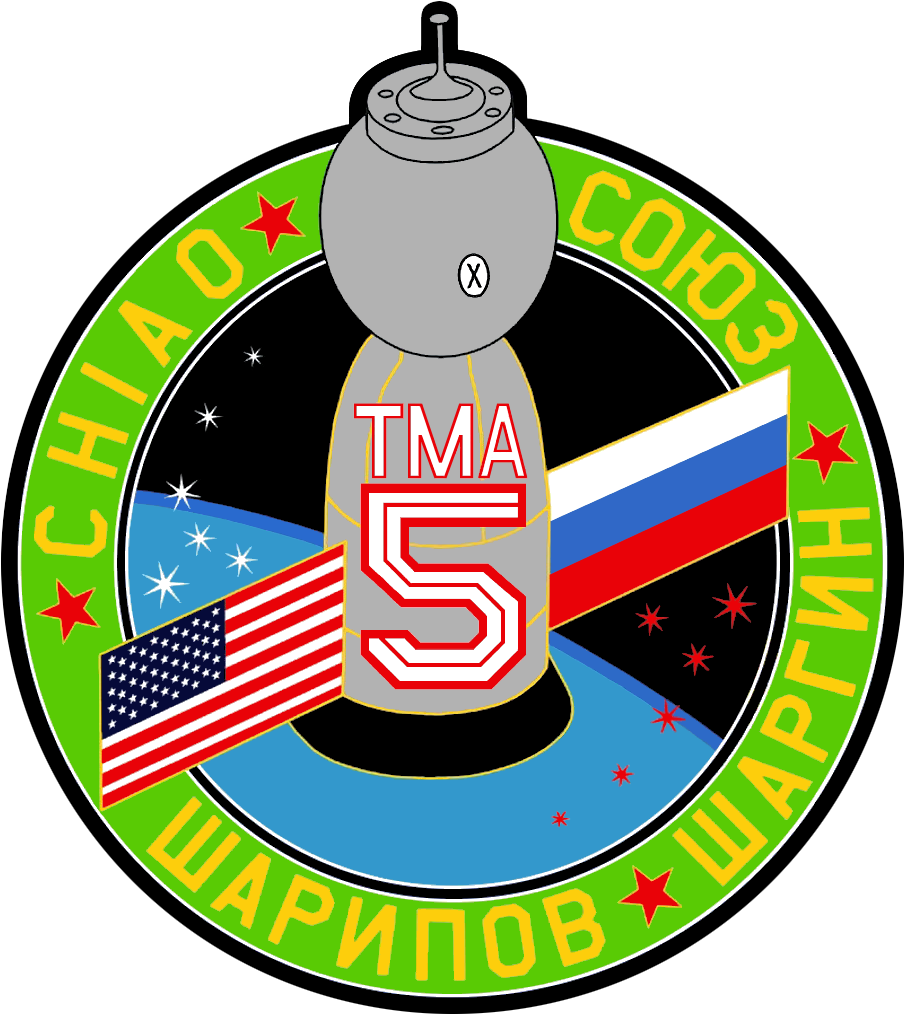 This Soyuz TMA-5 patch was designed by Alex Panchenko: "I've started design works of patches for Soyuz TMA-5 (ISS-10 flight) back in July 2004, when first sketches - drawings made in Starbucks coffee and later presented them for approval to Soyuz commander S. Sharipov. It was still not clear who is going to be third crew member of Soyuz and in this case I was preparing for Soyuz TMA-5 flight design in two variants (with name of Polonsky and with name of Shargin - both candidates on third seat in Soyuz). During design work with Soyuz TMA-5 patch my idea was to present Soyuz panels as symbolic flags of Russia and United States, and base of design is a window view outside. Crew names are in the same order as their actual seats inside Soyuz. Commander S. Sharipov in center, L. Chiao on the left from commander and Y. Shargin on the right side."